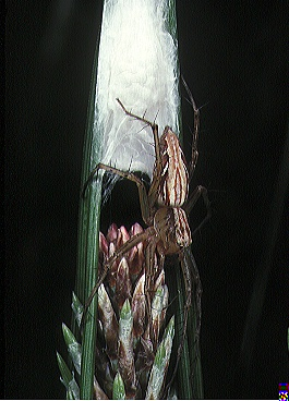 female Oxyopes sertatus with egg sac from Okinawa.